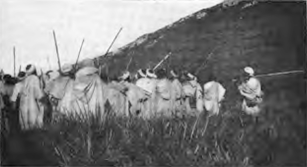 Maroc. Berberian fantasia. 1901